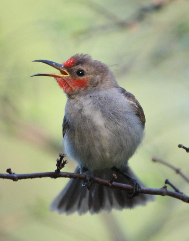 Red-headed Honeyeater (Myzomela erythrocephala)